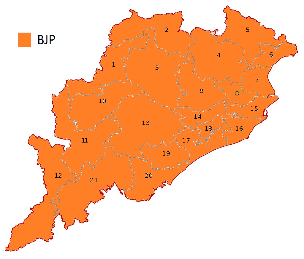 Seat Sharing of NDA in Orissa in 2019 General Election